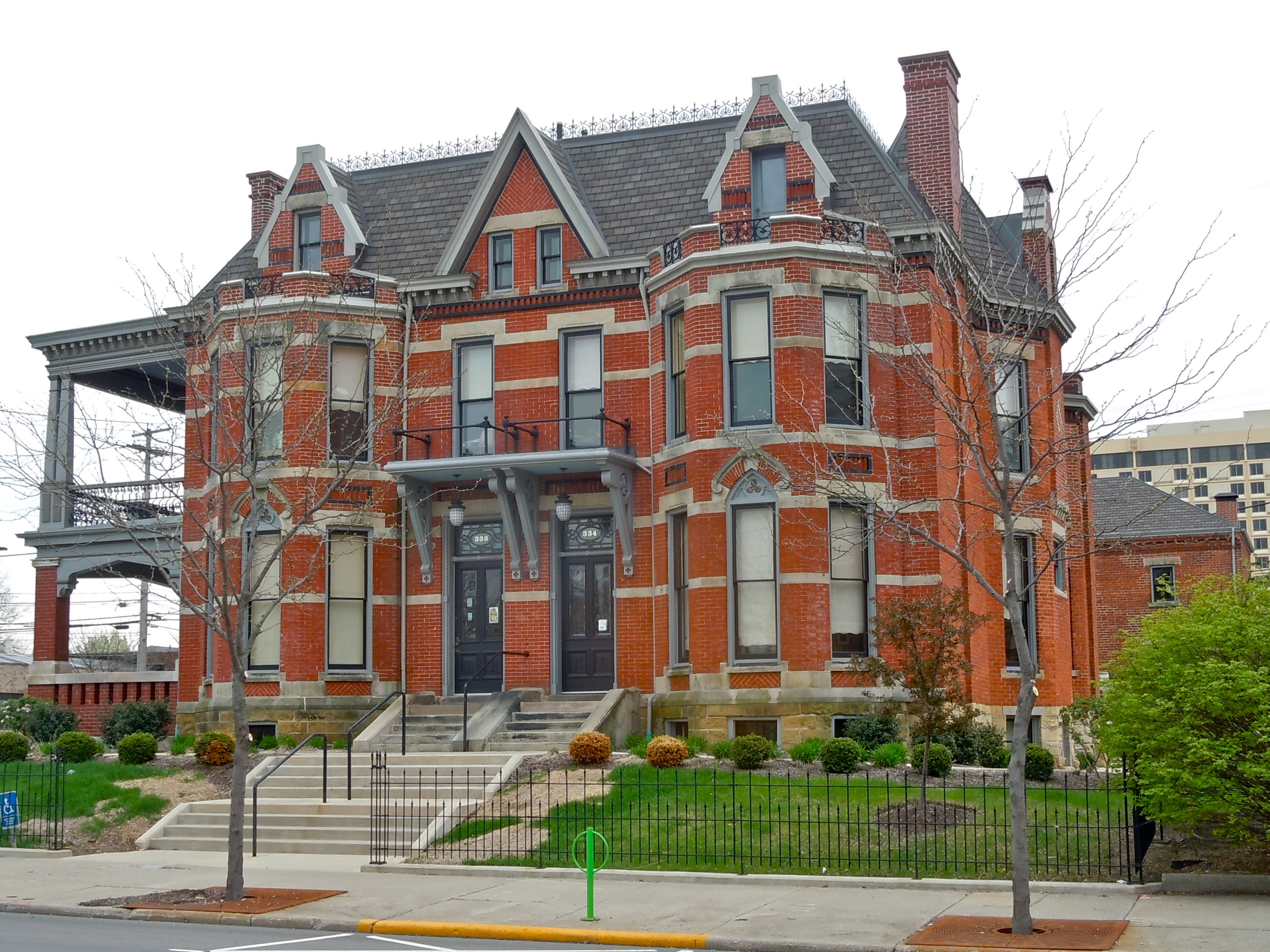 McColloch-Weatherhogg Double House on the NRHP since December 7, 2001. At 334-336 E. Berry St., Fort Wayne, Allen County, Indiana.